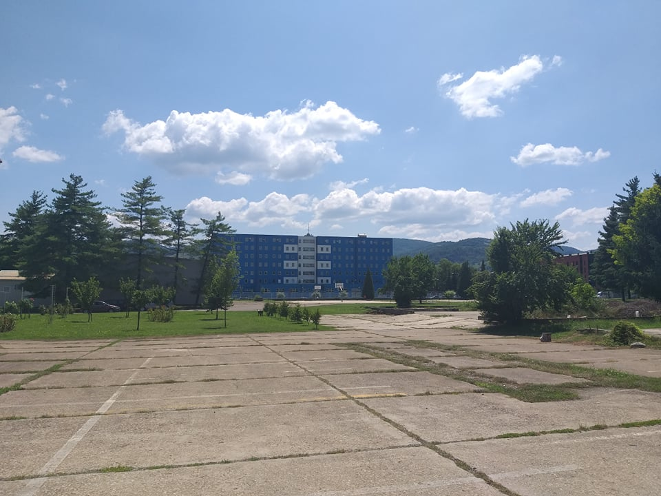 Building of the Police Academy in Banja Luka. Picture is taken from University Campus in Banja Luka.